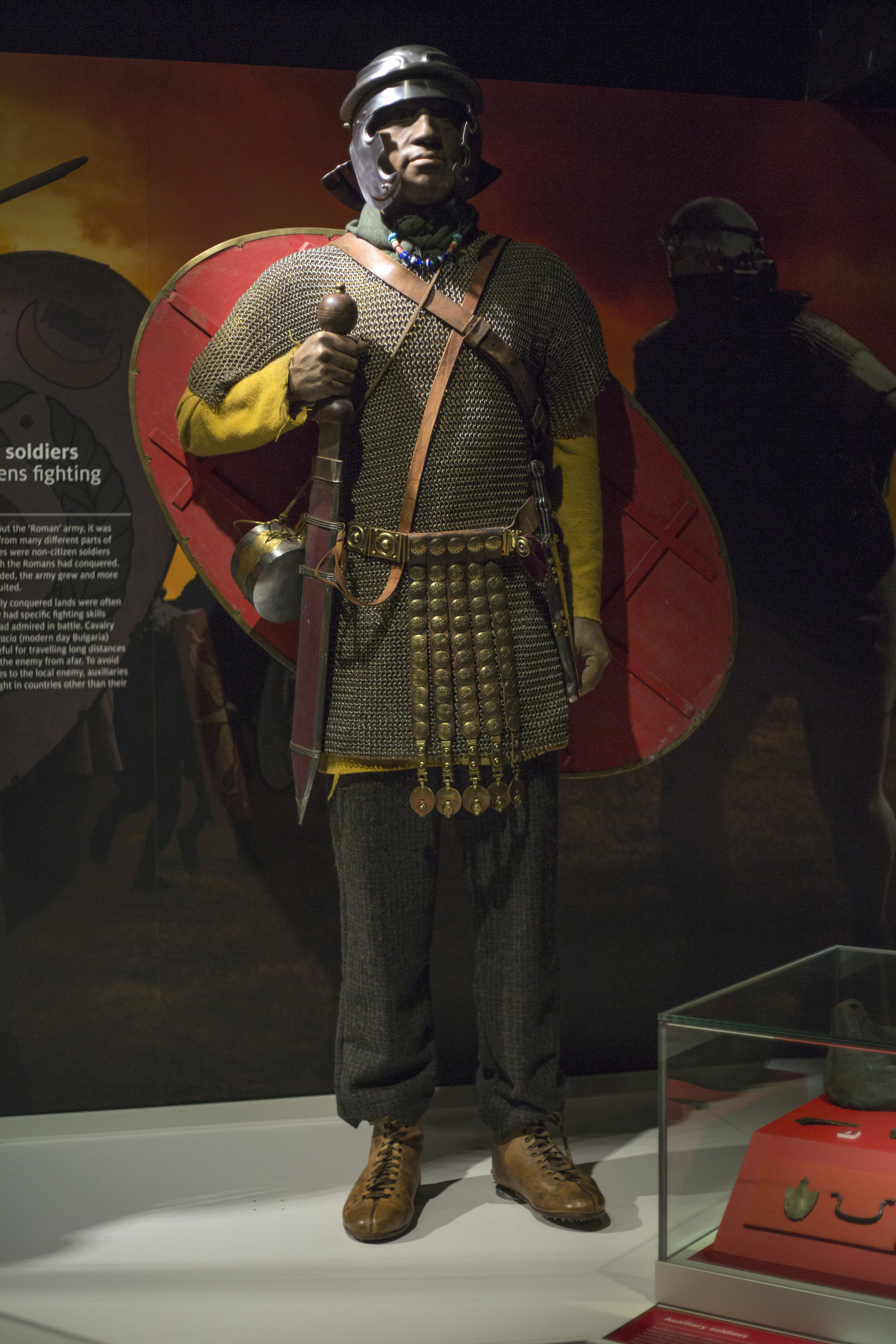 Vindolanda (Chesterholm) Roman forts, civil settlement and cemeteries, adjacent length of the Stanegate Roman road and two miles Wikidata has entry Q17668738 with data related to this item.